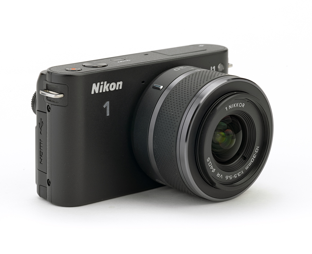 A Nikon J1 camera with a Nikkor 10-30mm lens.